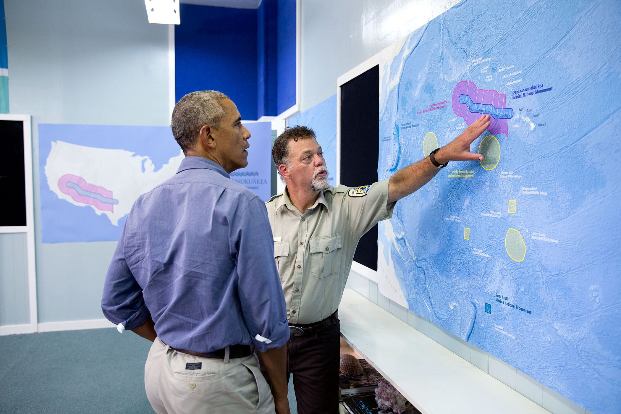 The President is briefed by Bob Peyton, Refuge Manager, Midway Atoll National Wildlife Refuge and National Monument, prior to a tour of the atoll. (Official White House Photo by Pete Souza)